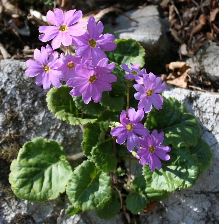 Primula tosaensi (Iwazakur) in Funabuseyama, Gifu Pre.